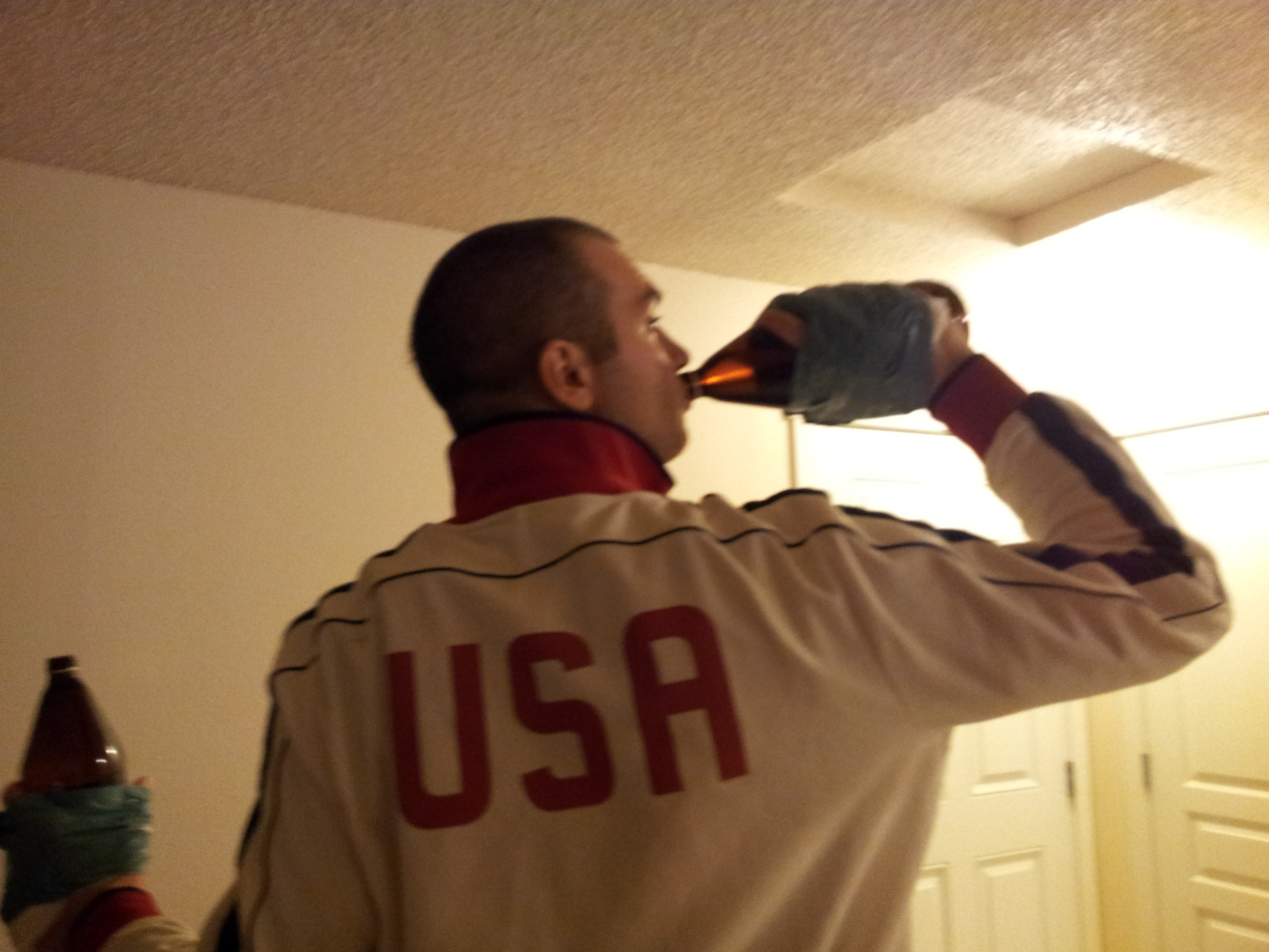 Proper picture of Edward 40 hands. Duct tape and 2 Pabst Blue Ribbon 40's.